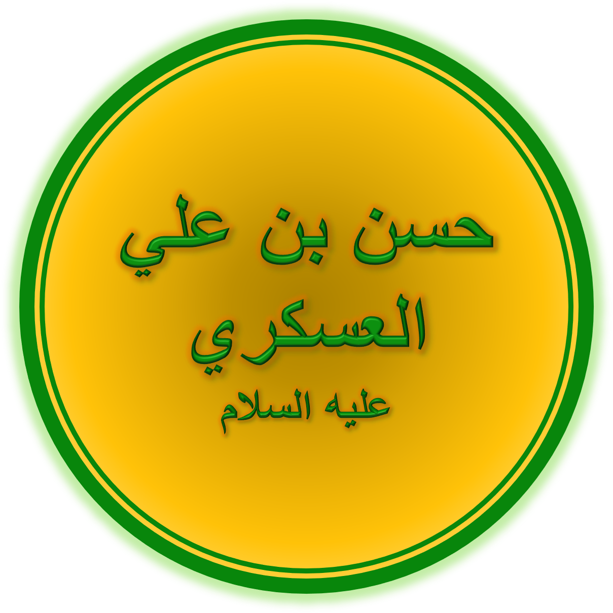 Arabic text with the name and a title of Hasan ibn Ali al-Askari